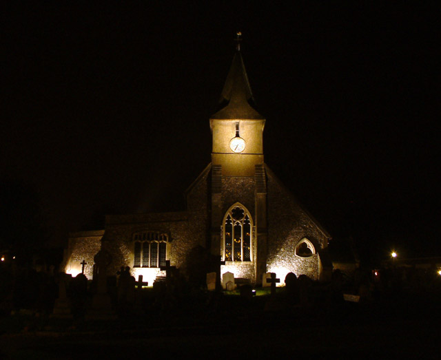 All Saints parish church, Sanderstead, London (formerly Surrey), seen from the southwest at night